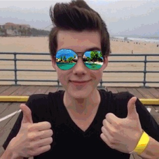 Jeremy Shada at the beach.